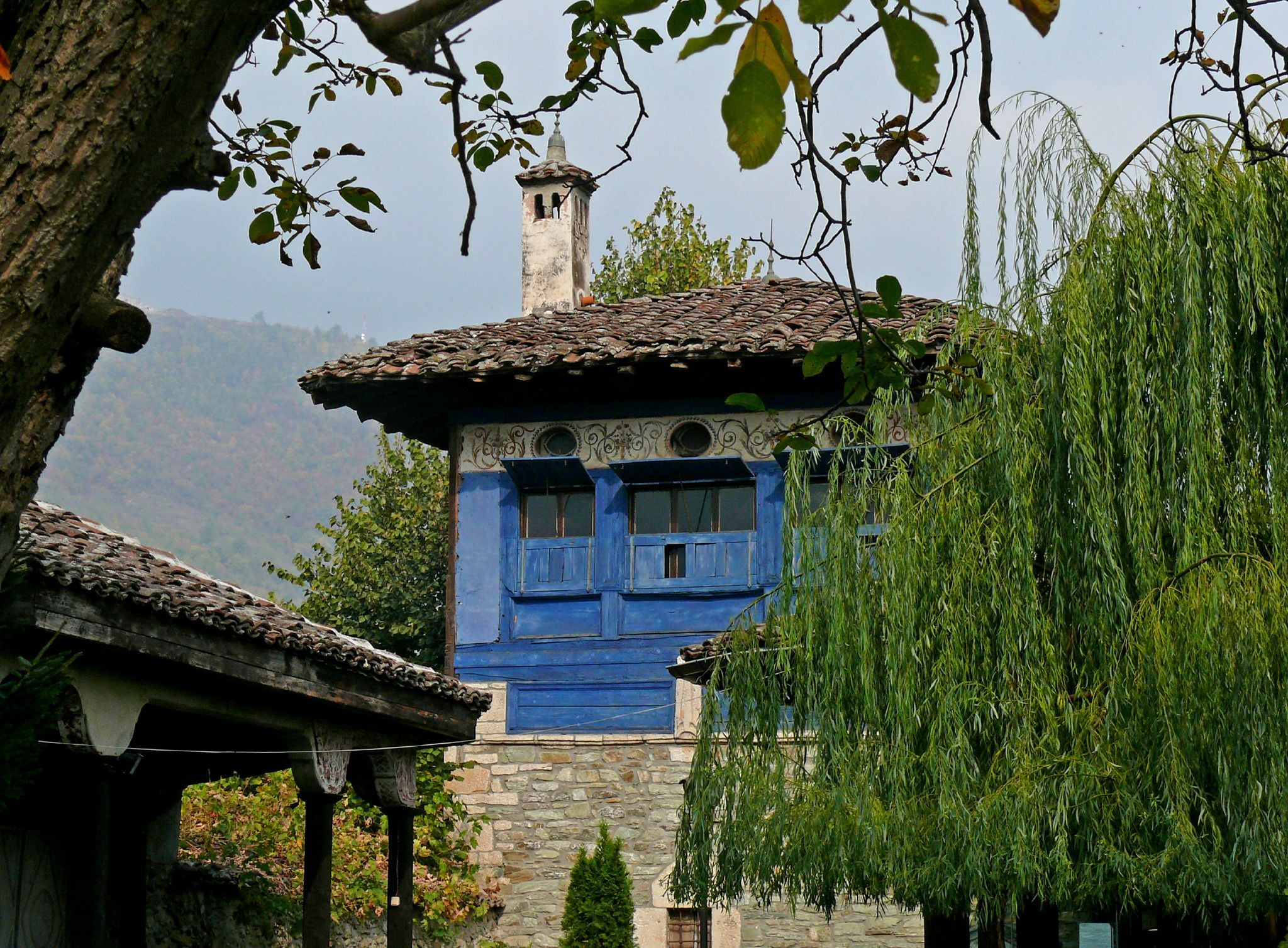 Sufi equivalent to a monastery, formerly occupied by the Bektashi dervish order.